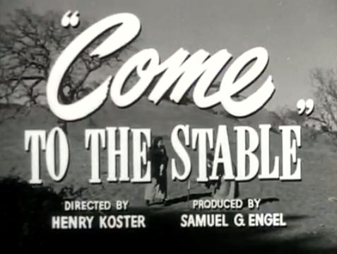 Come to the Stable - trailer (cropped screenshot)